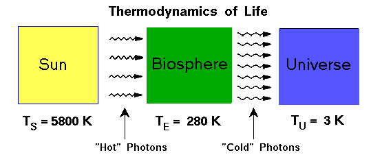 Fig.2 from "Life on Earth - flow of Energy and Entropy" by Dr.Marek Roland-Mieszkowski. Paper is located at